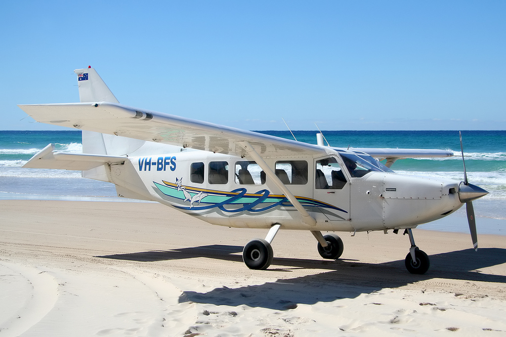 Air Fraser Island Gippsland GA-8 Airvan on Eurong Beach